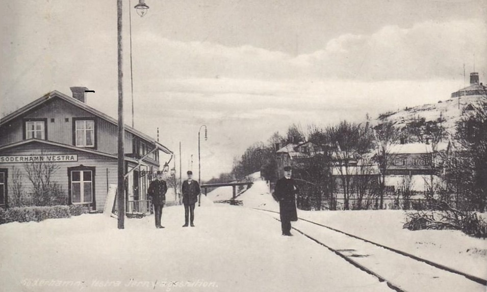 Söderhamn Western Railway Station